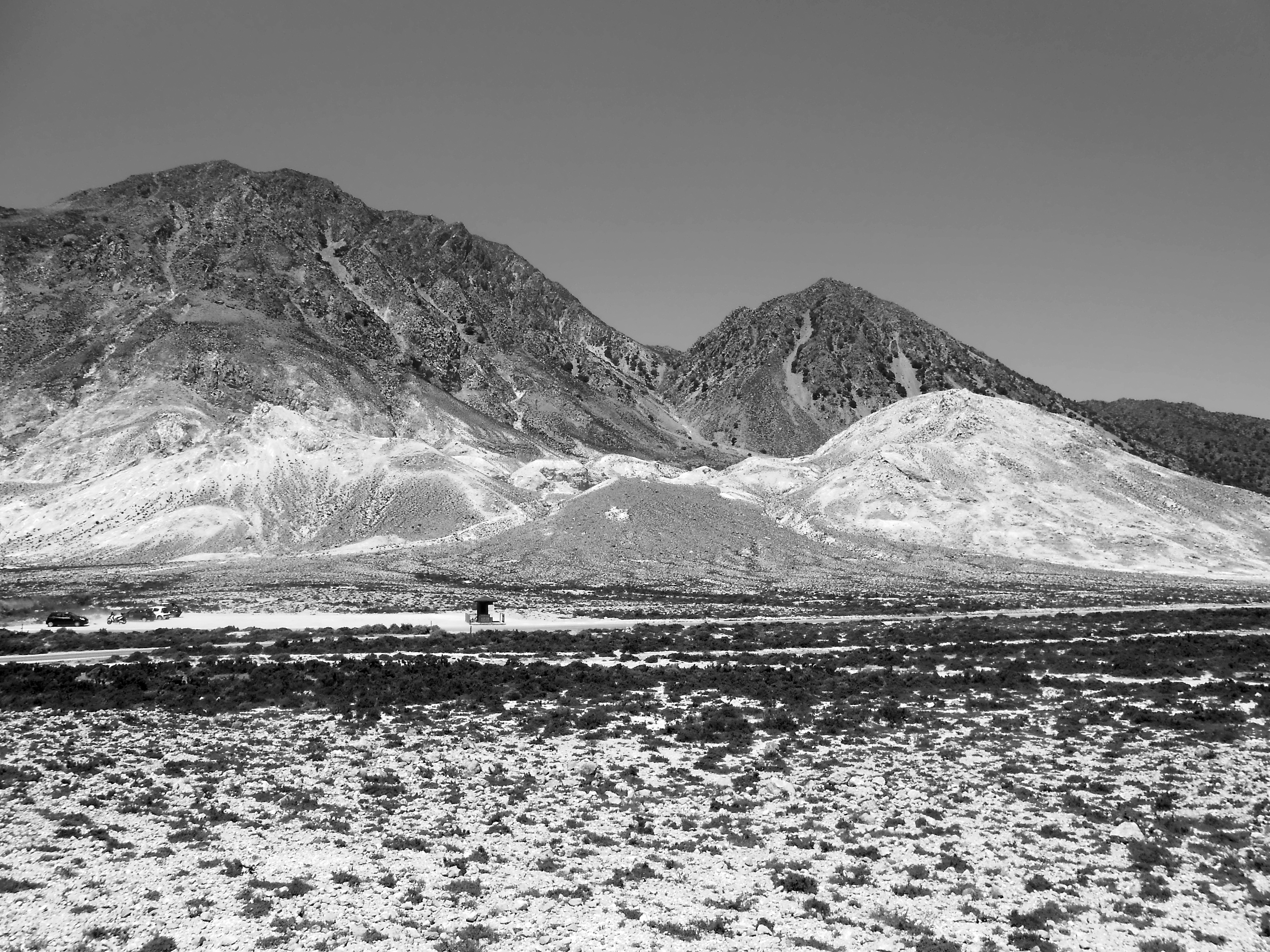 Crater Alexandros (Alexander) of Nisyros' volcano. Nisyros Island, Dodecanese, Greece. This is a photography of Natura 2000 protected area with ID GR4210007